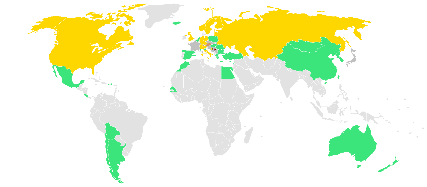 Gold for countries achieving at least one gold medal.Silver for countries achieving at least one silver medal.Bronze for countries achieving at least one bronze medal.Green for countries that didn't get any medal.Gray for countries that did not participate.A yellow circle displays the host city (Sarajevo).Red diamonds display countries achieving their first medal ever.